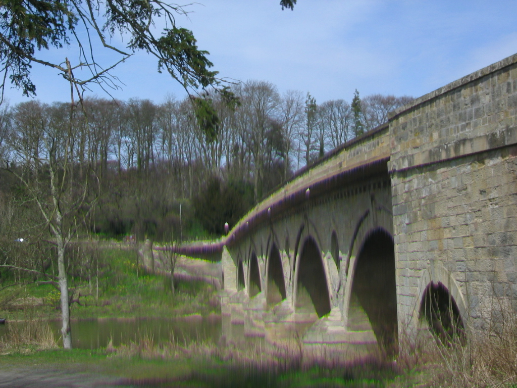 The River Tweed at Coldstream, Scottish Borders